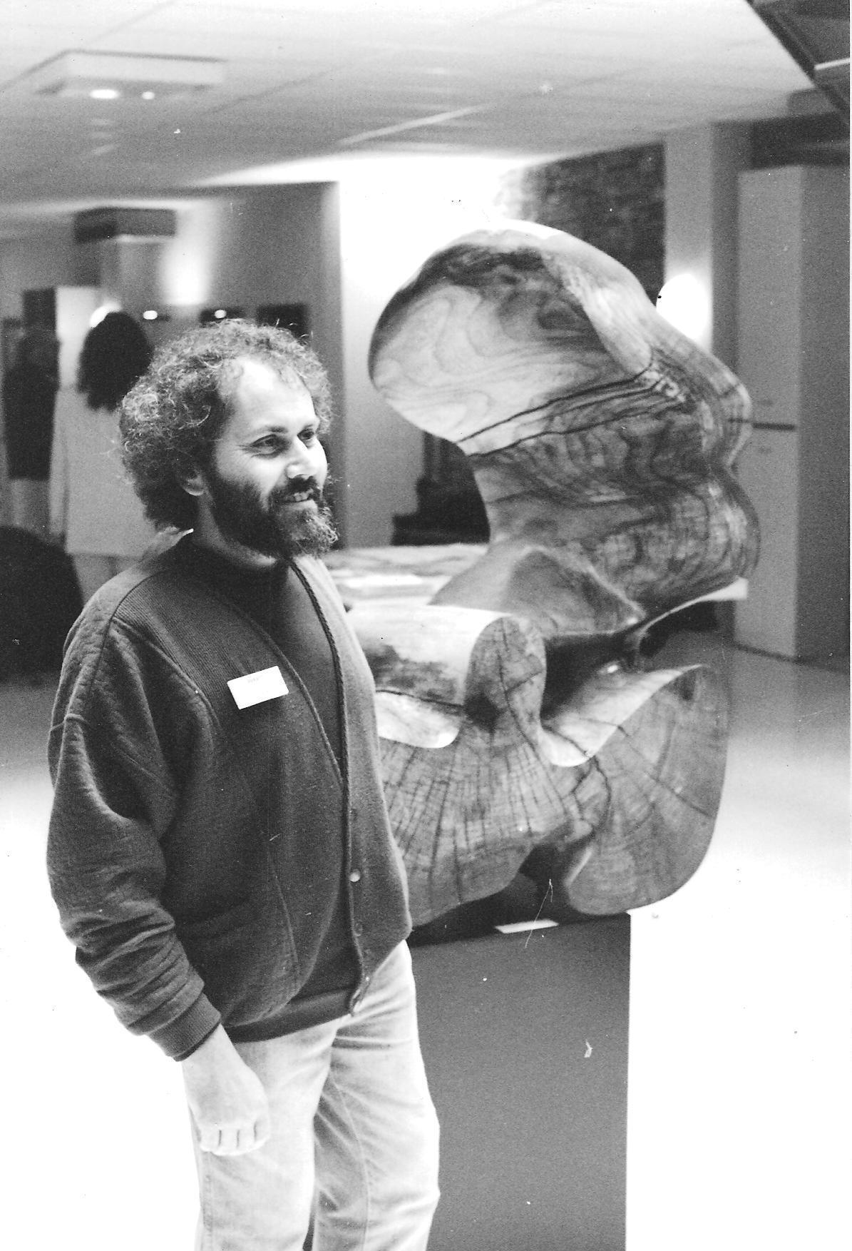 JoepDeVlucht 1992